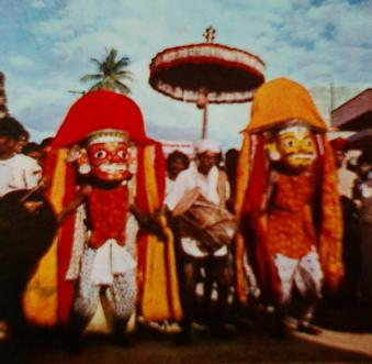 Traditional Art of Karnataka